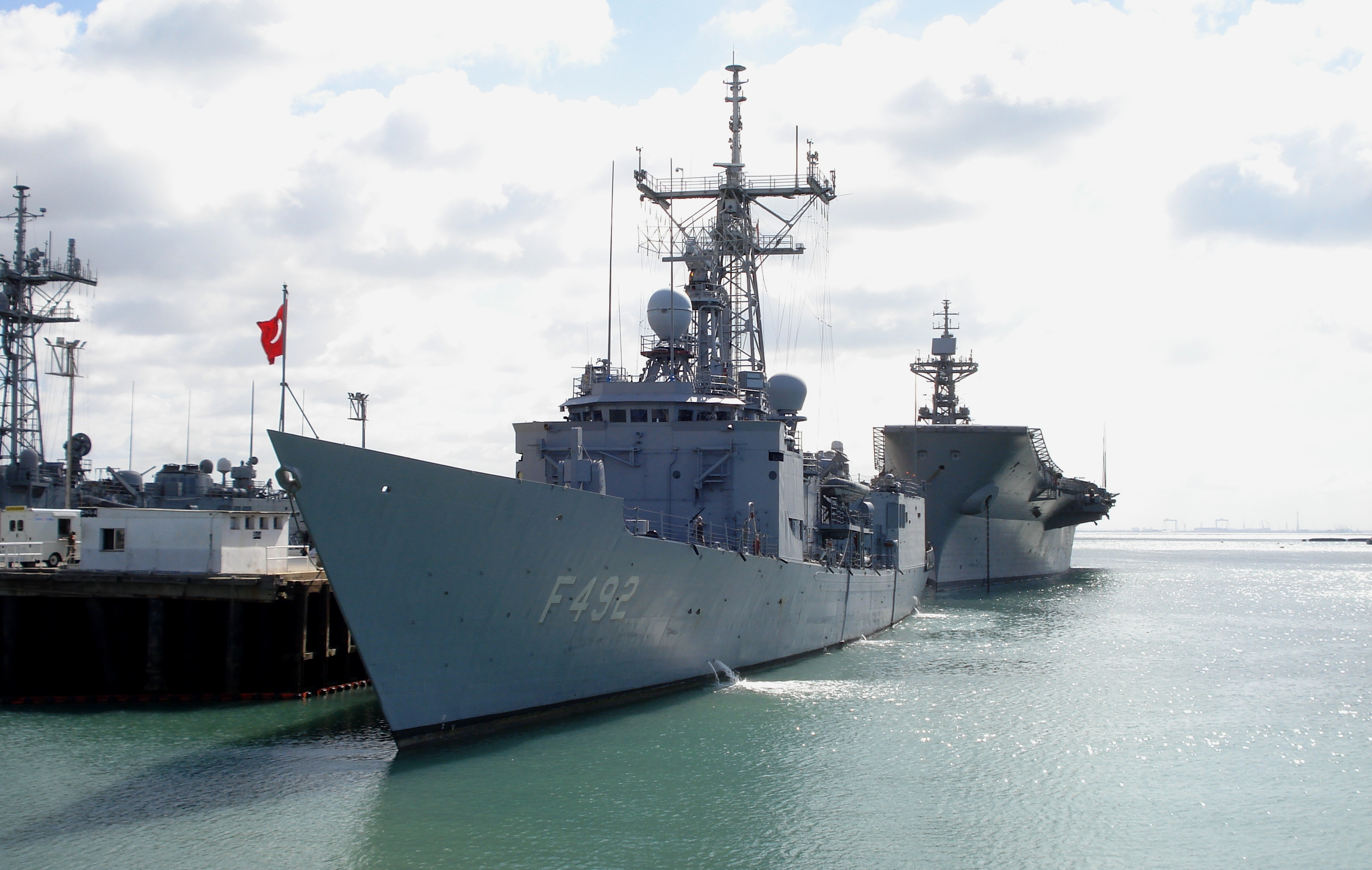 TCG Gemlik (F492) in Rota, Cádiz.